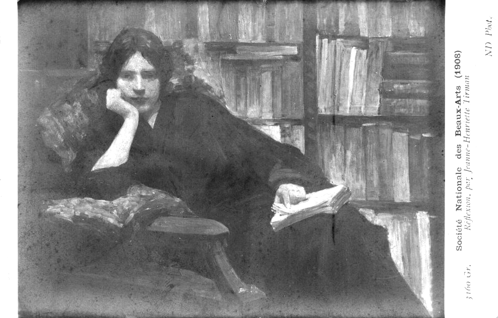 Old postcard, Salon Société Nationale des Beaux-Arts - 1908. 'Réflexion', self-portrait by Jeanne-Henriette Tirman.